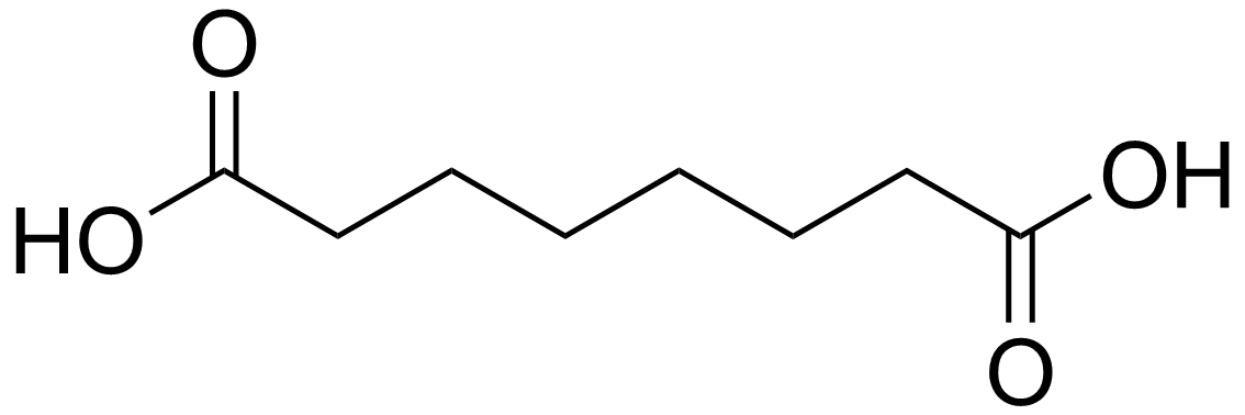 Chemical structure of suberic acid created with ChemDraw.